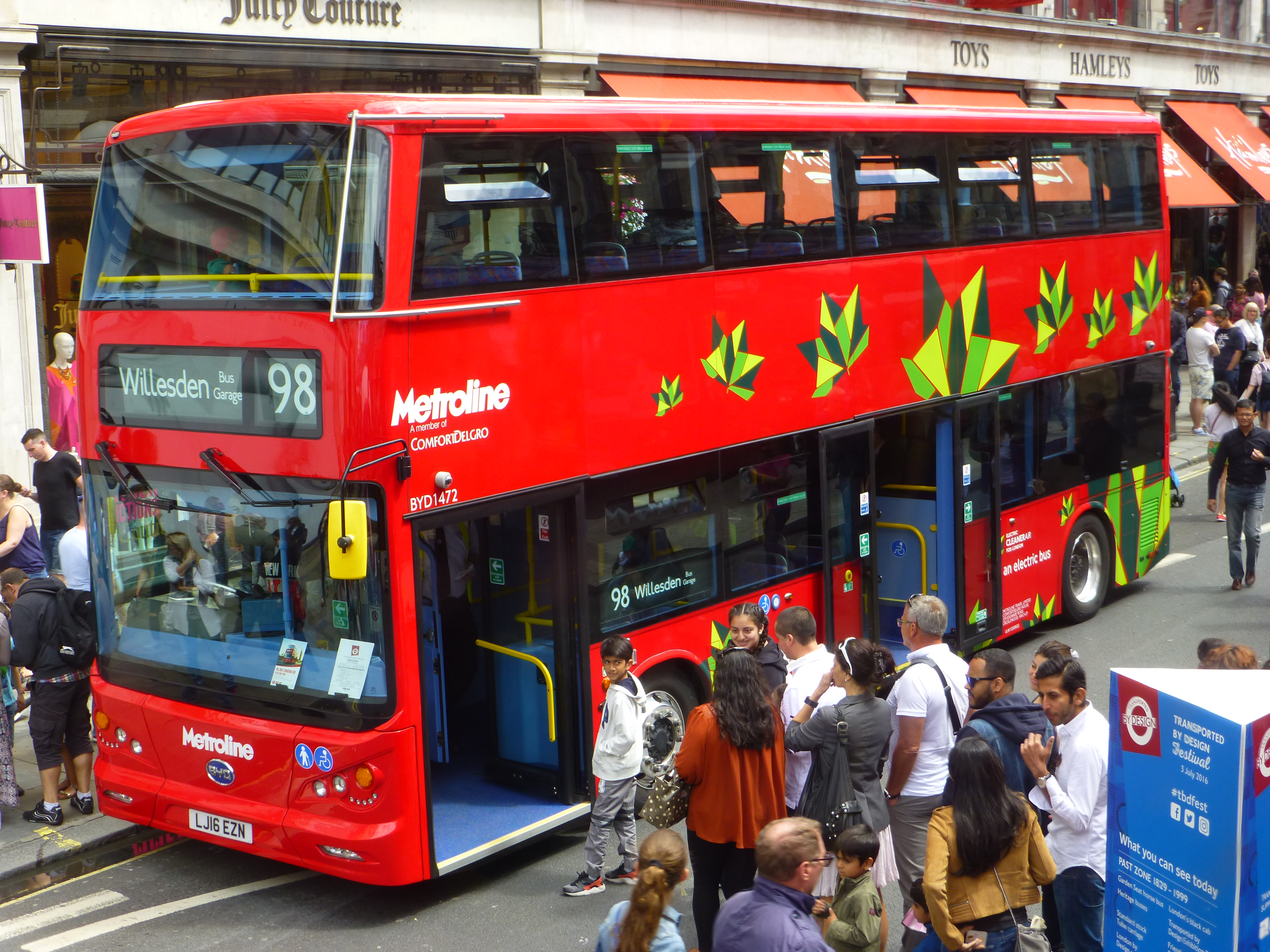 BYD Double Deck Battery Electric Bus BYD1472 at the 'Transported By Design' event in Regent Street, London in July 2016